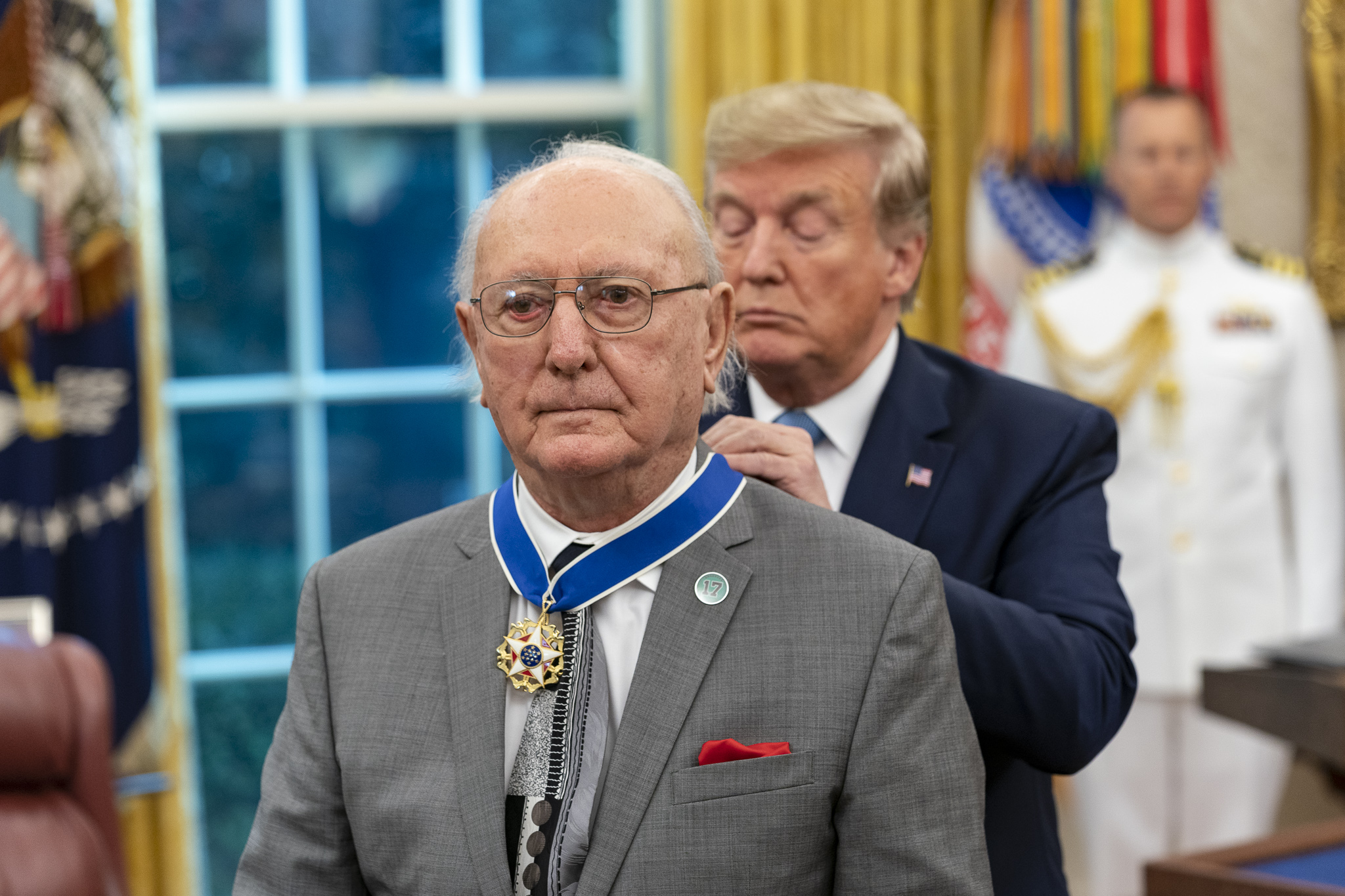 President Donald J. Trump presents the Presidential Medal of Freedom, the nation’s highest civilian honor, to legendary Hall of Fame Boston Celtics basketball player Robert “Bob” Cousy Thursday, Aug. 22, 2019, in the Oval Office of the White House. (Official White House Photo by Joyce Boghosian)